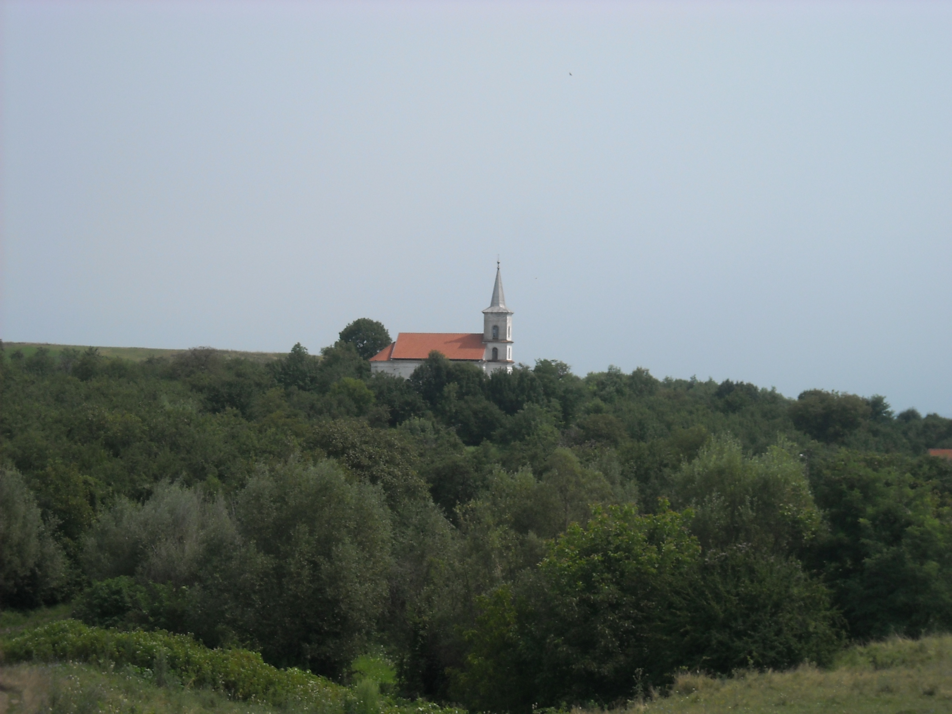 Calvinist church in Lozsád/Jeledinți village in Romania